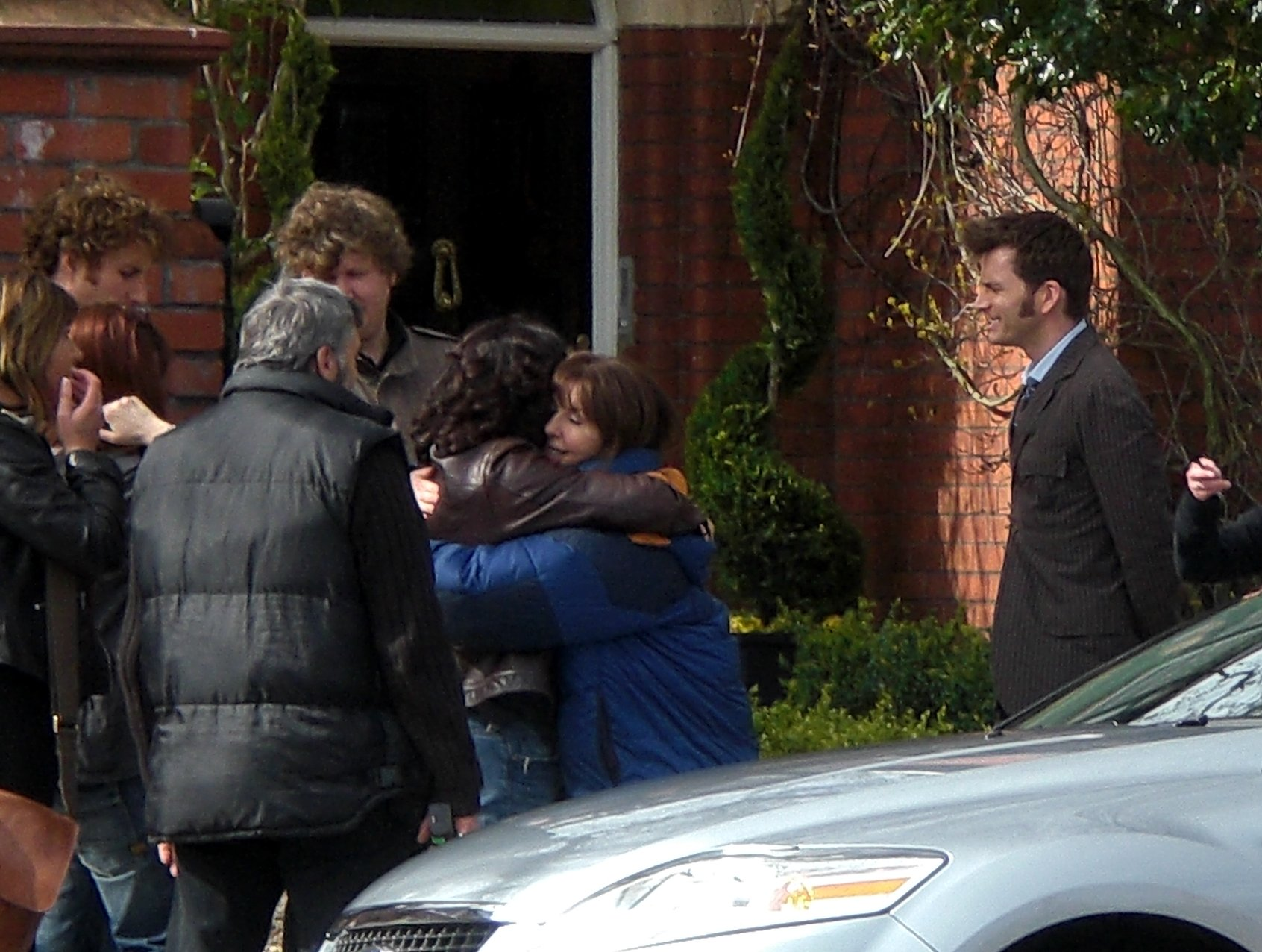 Lis Sladen, Julie Gardner, David Tennant on set of Dr Who, Penarth, Wales